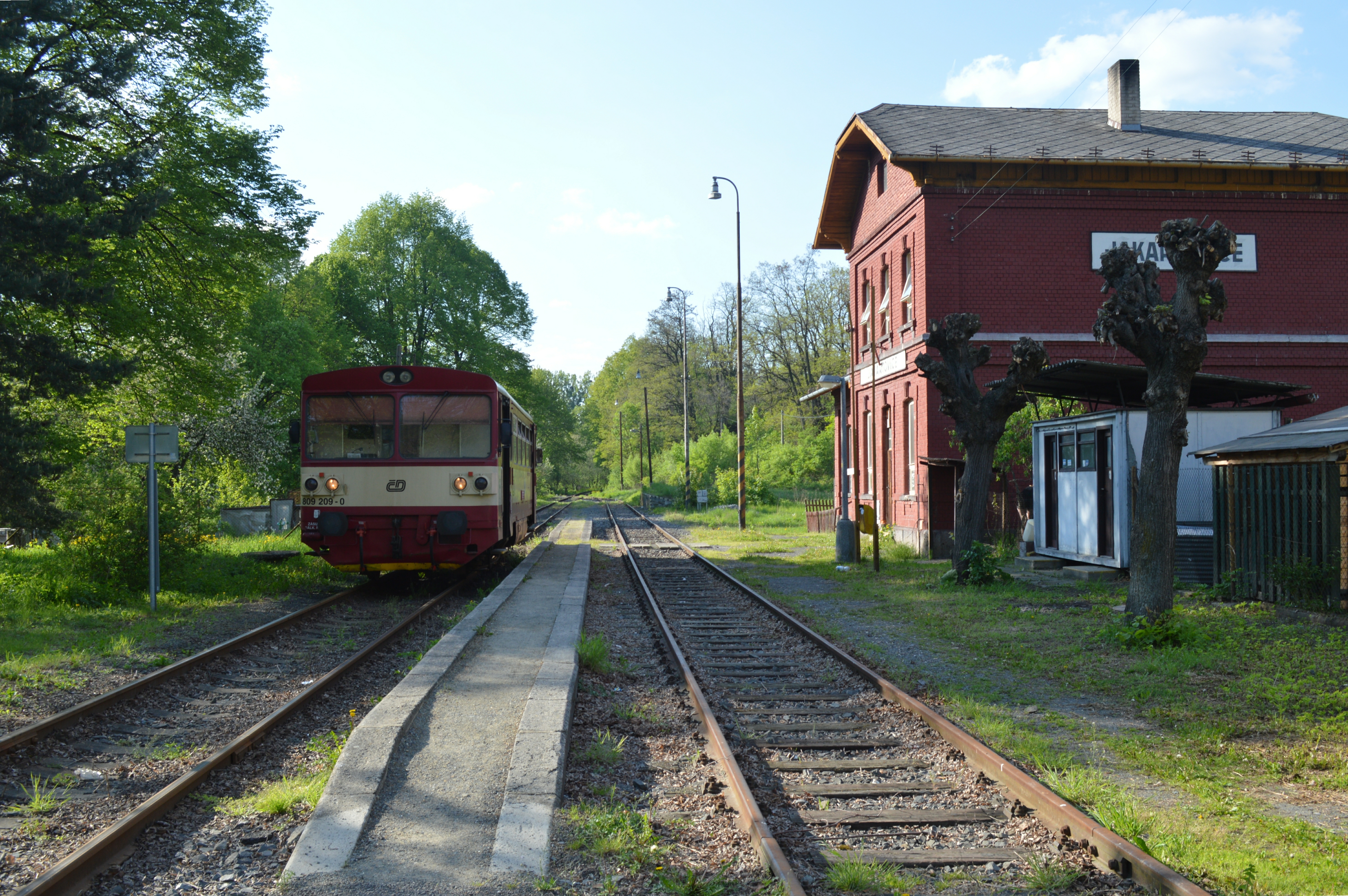 2013 Czech Republic Trip Day Five The last of four branch lines in the Opava area covered on 15 May 2013 was that to Jakartovice. Shortened in 2007, the line continued on for approximately 4kms further to Svobodné Heřmanice. Single car 809.209 waits to depart on train Os23413, 17:34 Jakartovice to Opava východ.